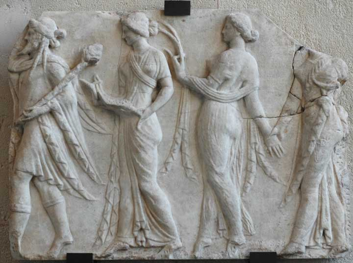 Bearded Dionysos leading the Horae (Seasons). Roman artwork of the Imperial Era, 1st century AD, copy of a neo-attic work. Location: Louvre (MR 720), part of the Albani collection. Photograph: Jastrow (2005)